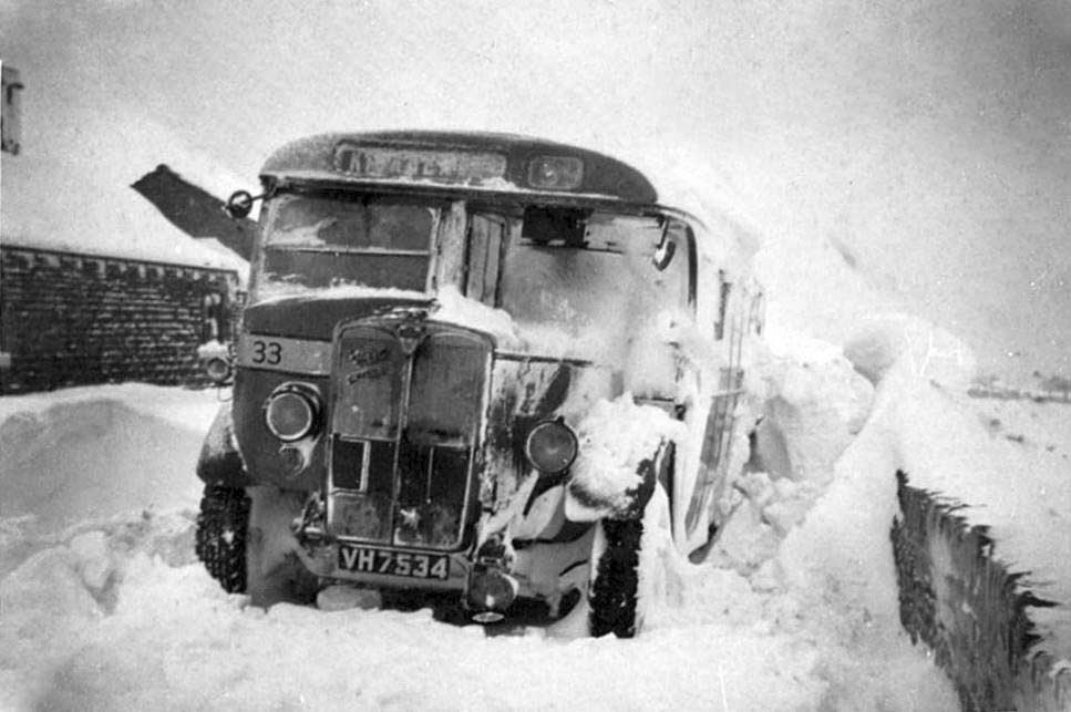 Winter 1947, snowbound bus, Castle Hill, Huddersfield. This was one of three single deck buses stranded for several weeks on this stretch of Ashes Lane in the long hard winter of 1947. The last bus to be stuck had been fitted with a snowplough to try and rescue the other two. The buses belonged to Huddersfield Corporation and at least one of them was still coloured wartime grey instead of mostly red with a cream band. "Huddersfield Joint Omnibus Committee bus 33 VH7534 owned by the London, Midland & Scottish Railway Company a AEC Regal chassis built in Southall, London, chassis number 06621641 with a Brush Company of Loughborough 32 sear rear entrance body new 12th April 1935 for £1513, it ran 259444 miles. It was sold to Henry Lane a dealer on 3 Feb 1945 for £500, it is seen stuck possibly on St Mary's Lane in snow on route 59 to Kirkheaton via Long Lane, Dalton." - [1]